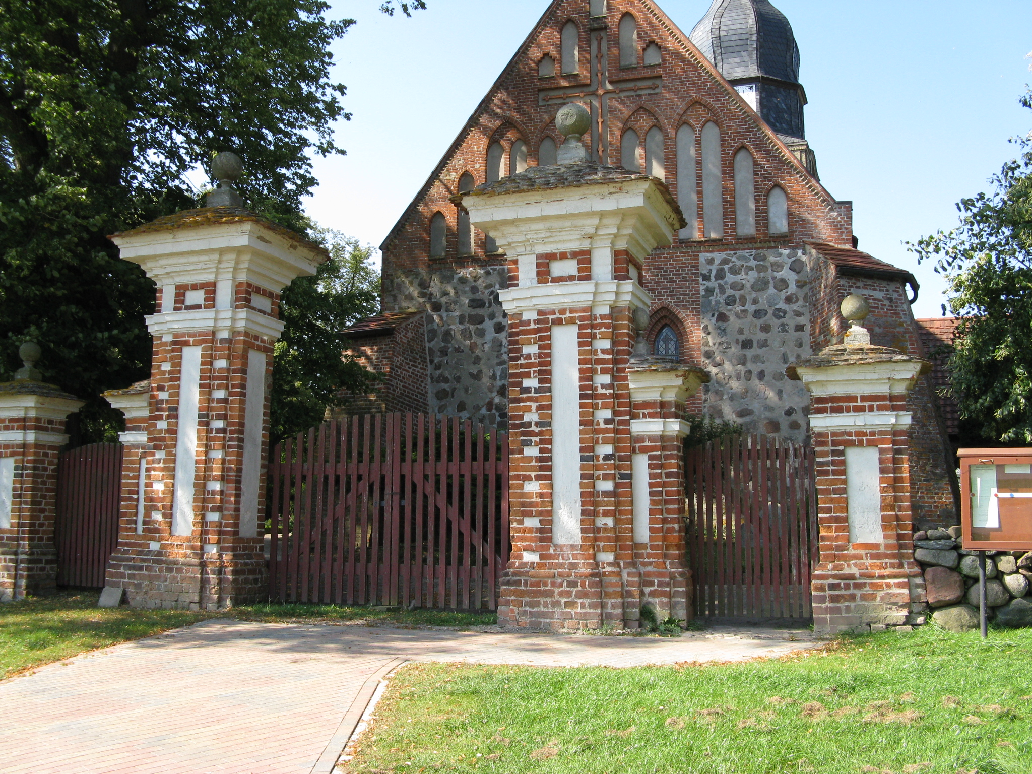 Portal at Church in Boddin, disctrict Güstrow, Mecklenburg-Vorpommern, Germany